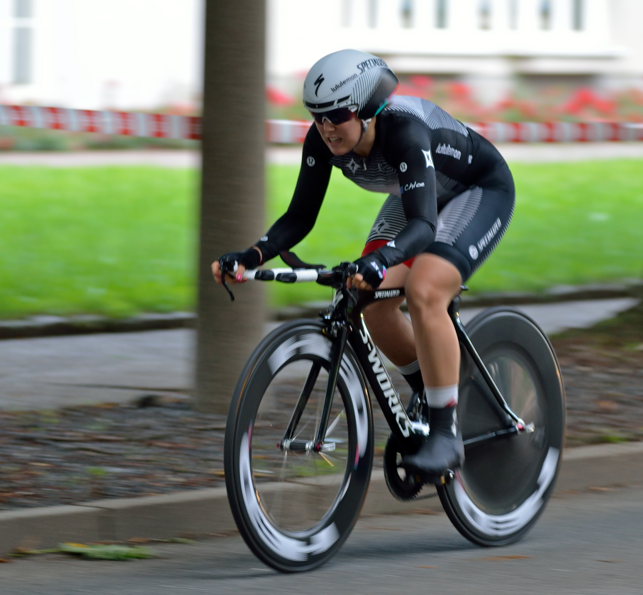 Chloe Hosking from the Specialized-lululemon team during the Women's Tour of Thuringia 2012 in Zwickau, Germany.